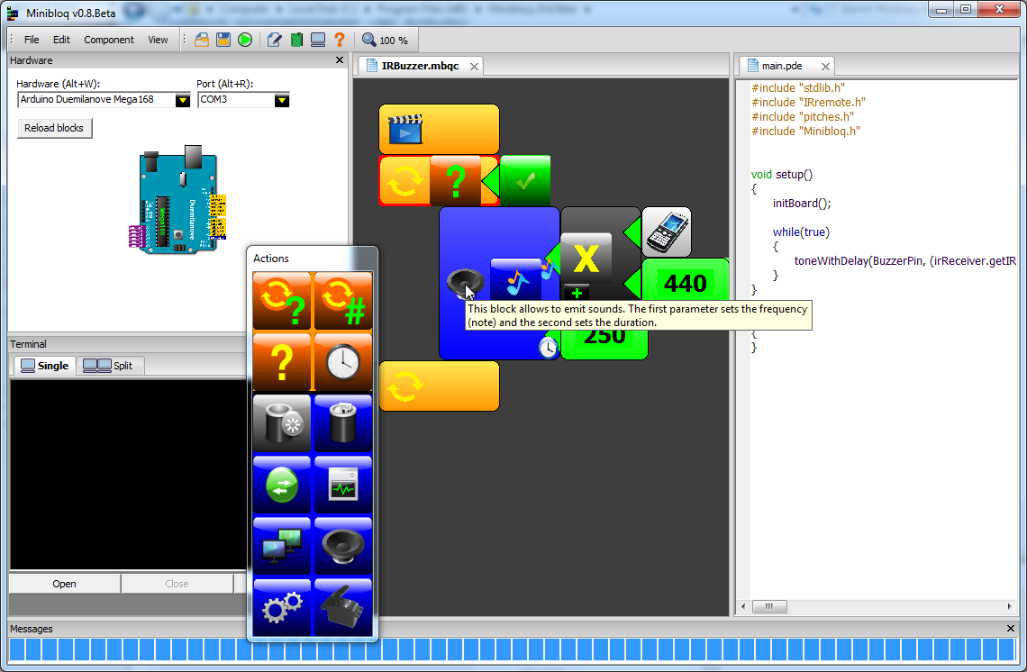 Screenshot of Minibloq 0.8 Beta showing one of the embedded examples.